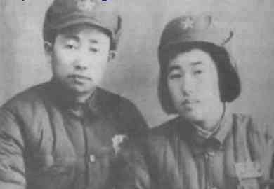 Peng Shaohui and his wife Zhang Wei in 1949 in Tianshui, northwest China's Gansu province.